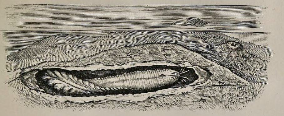 Panthalis oerstedi Kinberg, 1856; Acoetidae; in its "home"